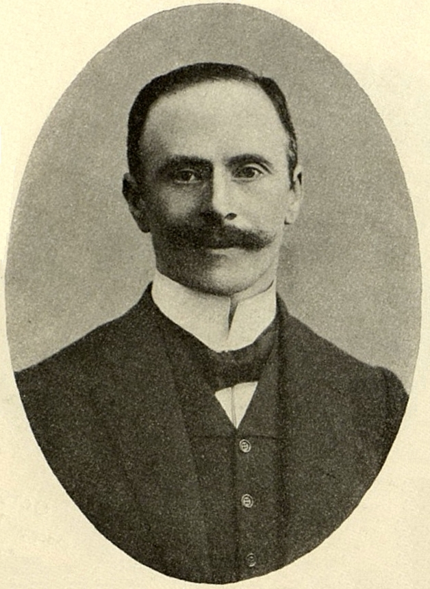 Hieronim Drucki-Lubecki (1869-1919), a politician of the Russian empire.